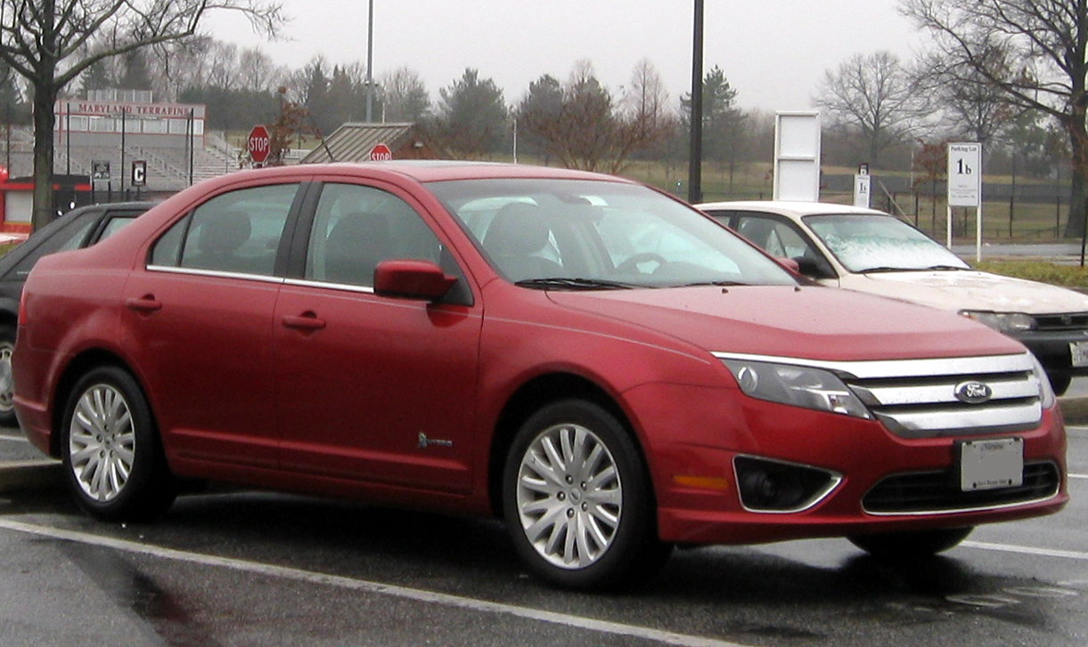 2010-2012 Ford Fusion Hybrid photographed in College Park, Maryland, USA.